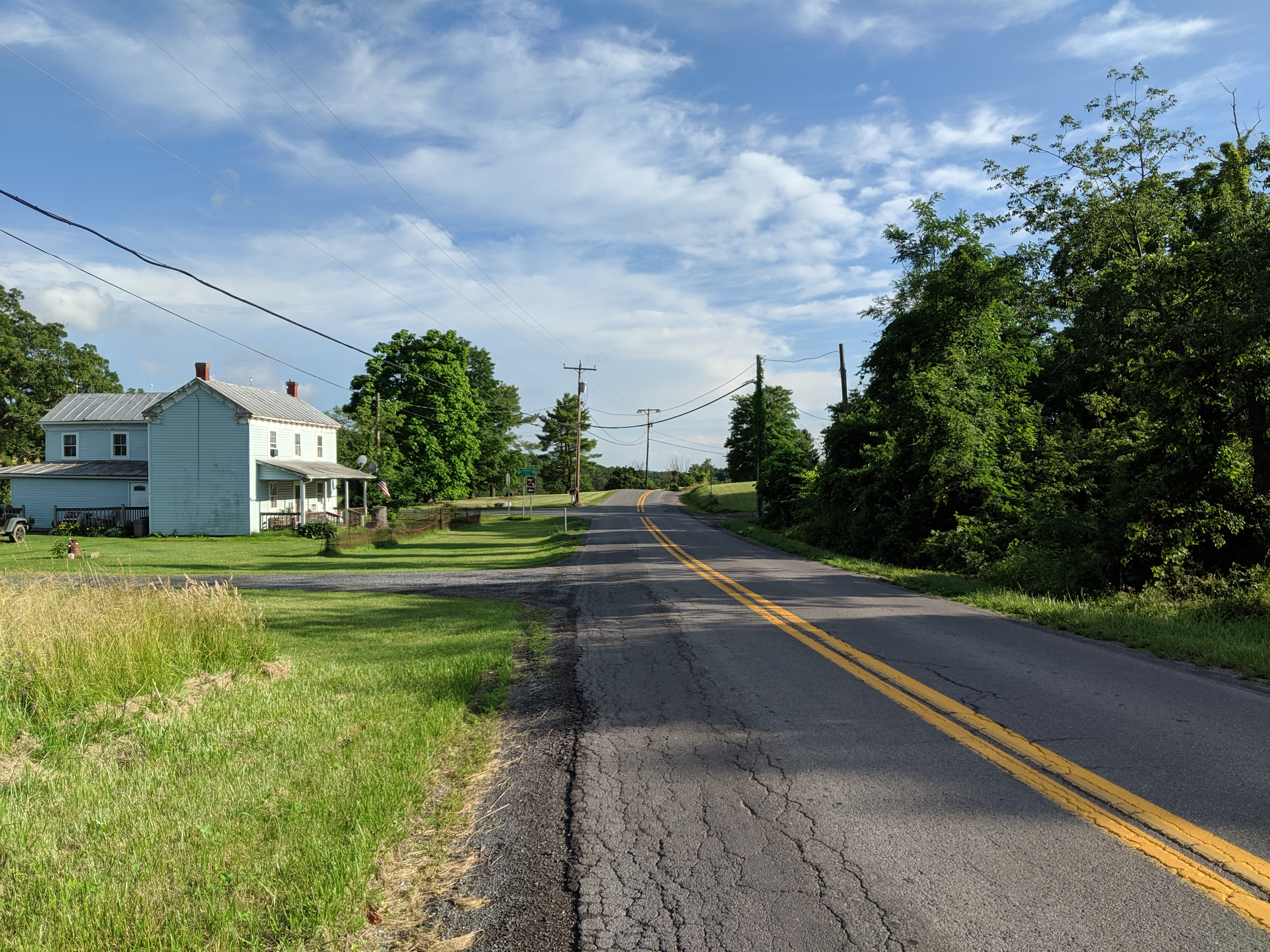 Greenwood, Morgan County, West Virginia, looking south along Winchester Grade Road (County Route 13) near the intersection with Shanghai Road.